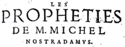 Detail from title-page of the original 1555 (Albi) edition of Nostradamus's Propheties Copyright (c) Peter Lemesurier 2006 Source: Self-made by me, Peter Lemesurier, 1997. For a higher-resolution version, contact me via my website. -- GNU Free Documentation License written by the Free Software Foundation . This was originally written to license free software documentation.